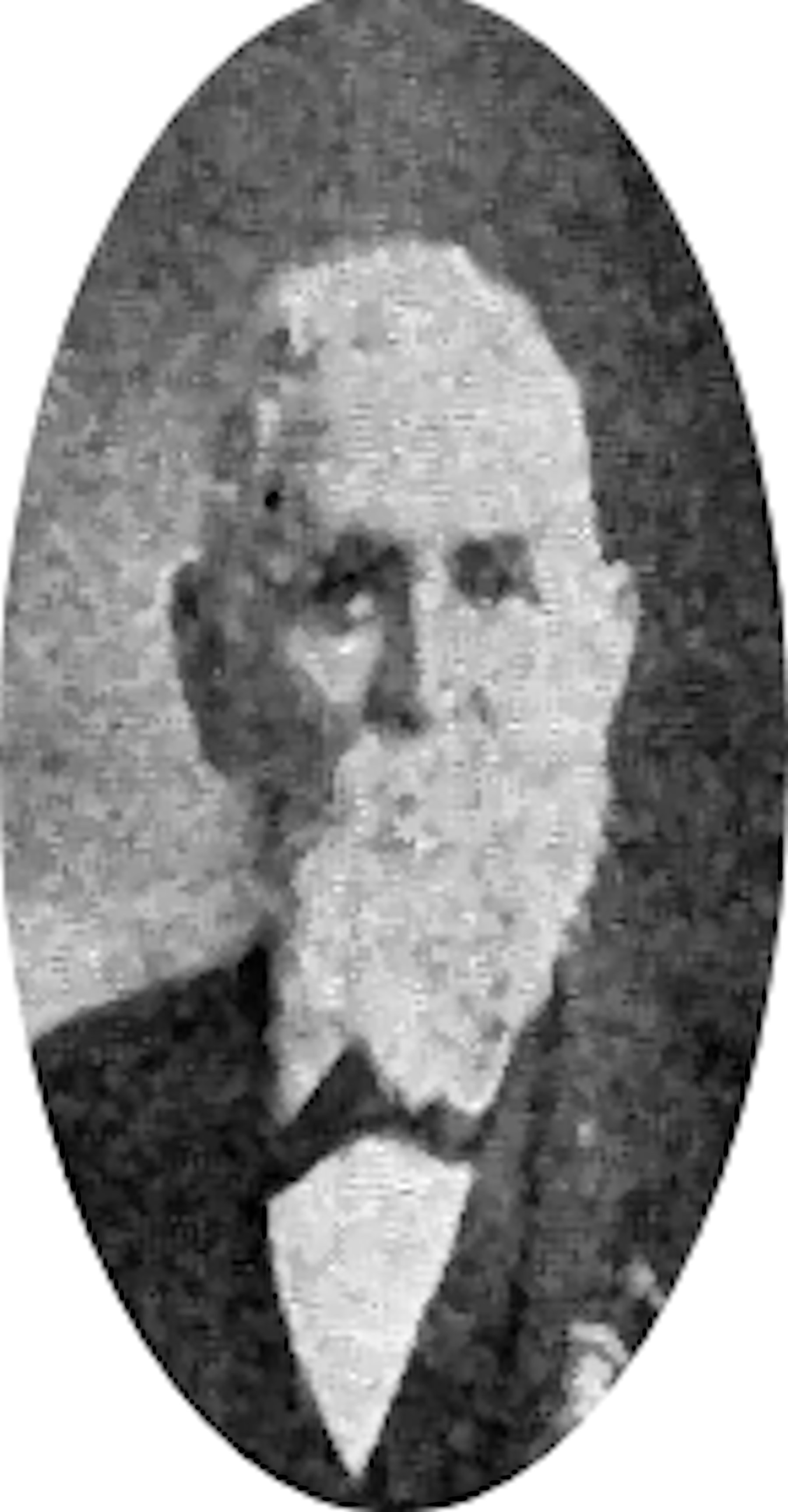 Medal of Honor winner Menomen O'Donnell